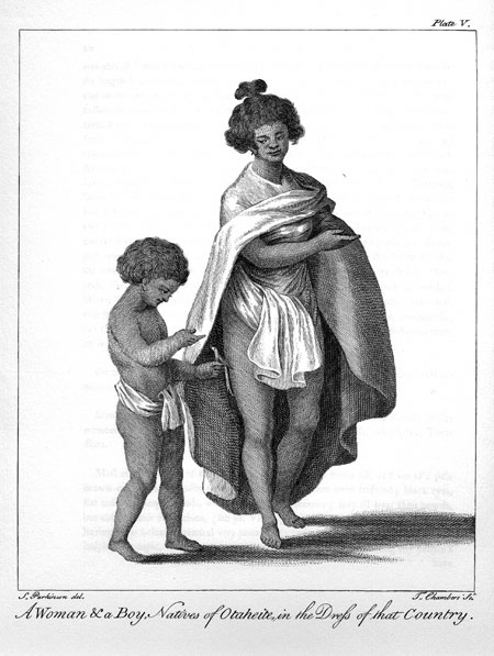 This is an image of a print entitled "A Woman & a Boy, Natives of Otaheite, in the Dress of that Country" by Sydney Parkinson.